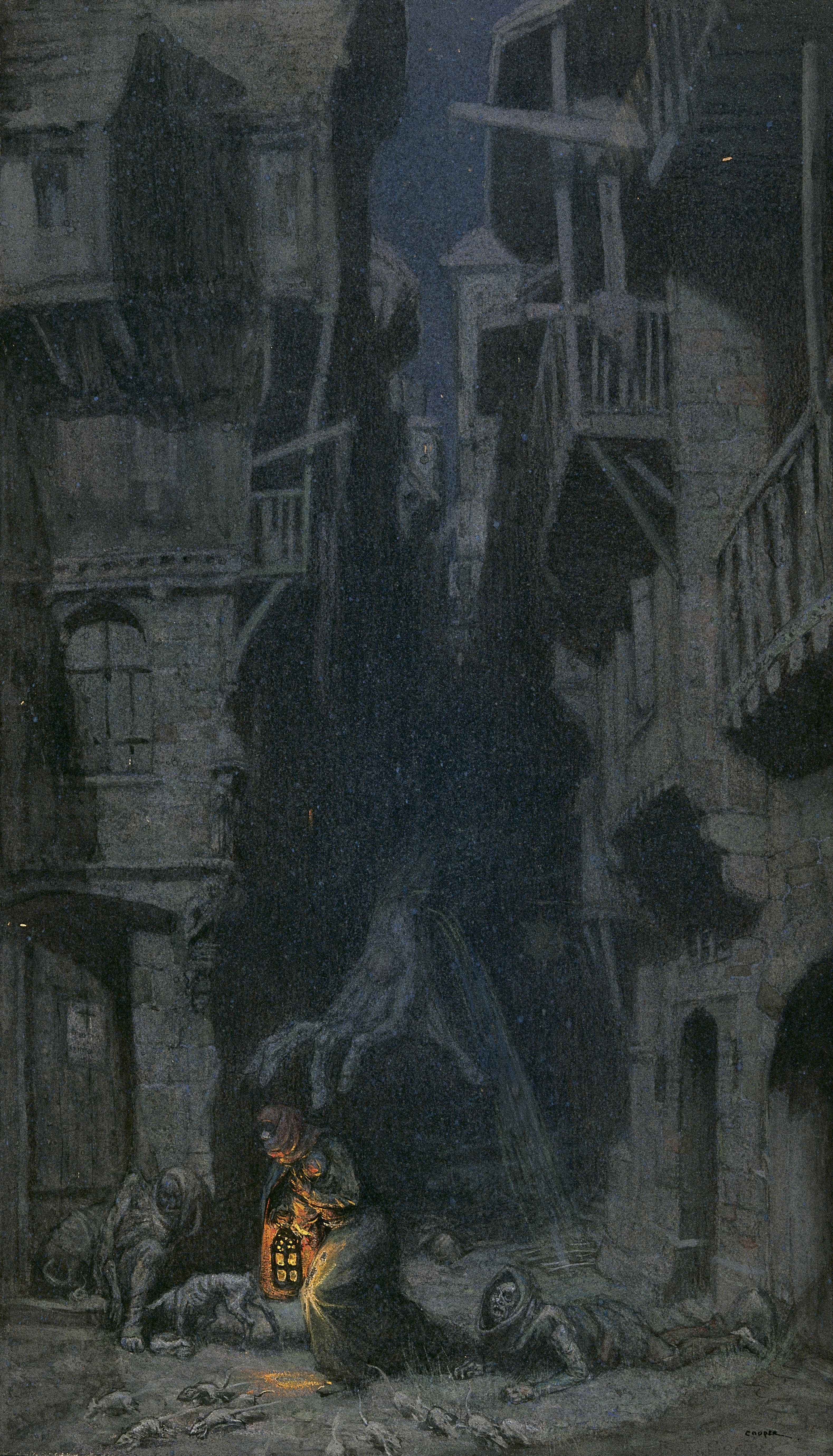 A giant hand roaming through the dark streets of London, people and rats try to escape its grasp; symbolising the bubonic plague. Watercolour by R. Cooper. Iconographic Collections Keywords: Dermatology; ic; Richard Tennant Cooper; cooper, richard t.; Disease